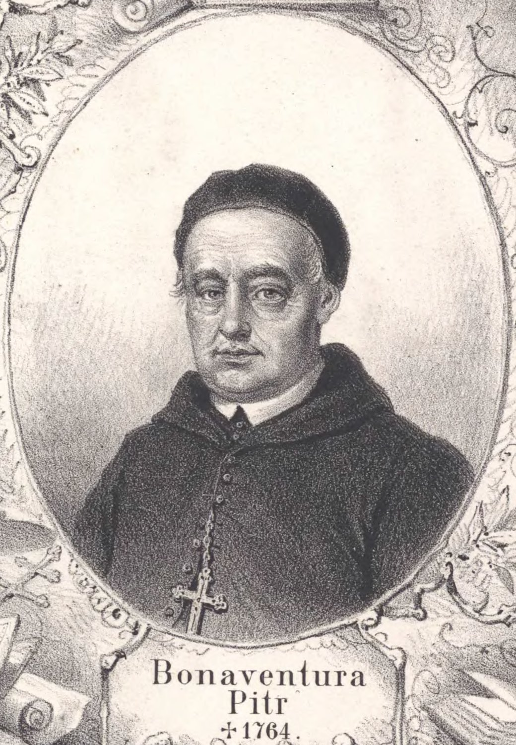 Portrait of Josef Bonaventura Piter (1708-1764), Czech priest and historian. His surname is sometimes written as "Pitr" or "Pitter".